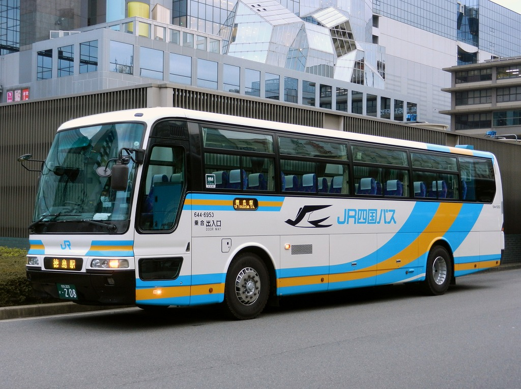 JR Shikoku bus Mitsubishi Fuso Aero Bus (PJ-MS86JP)hihgwaybus "Awa-Express Kyoto"(Tokushima-Kyoto)